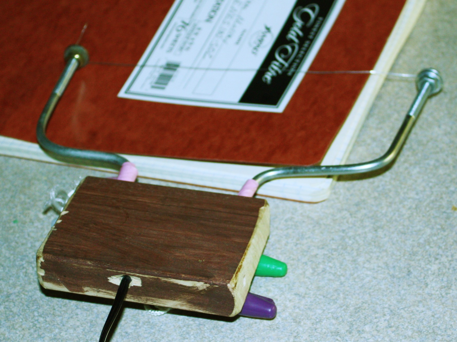 Hot wire Styrofoam cutter